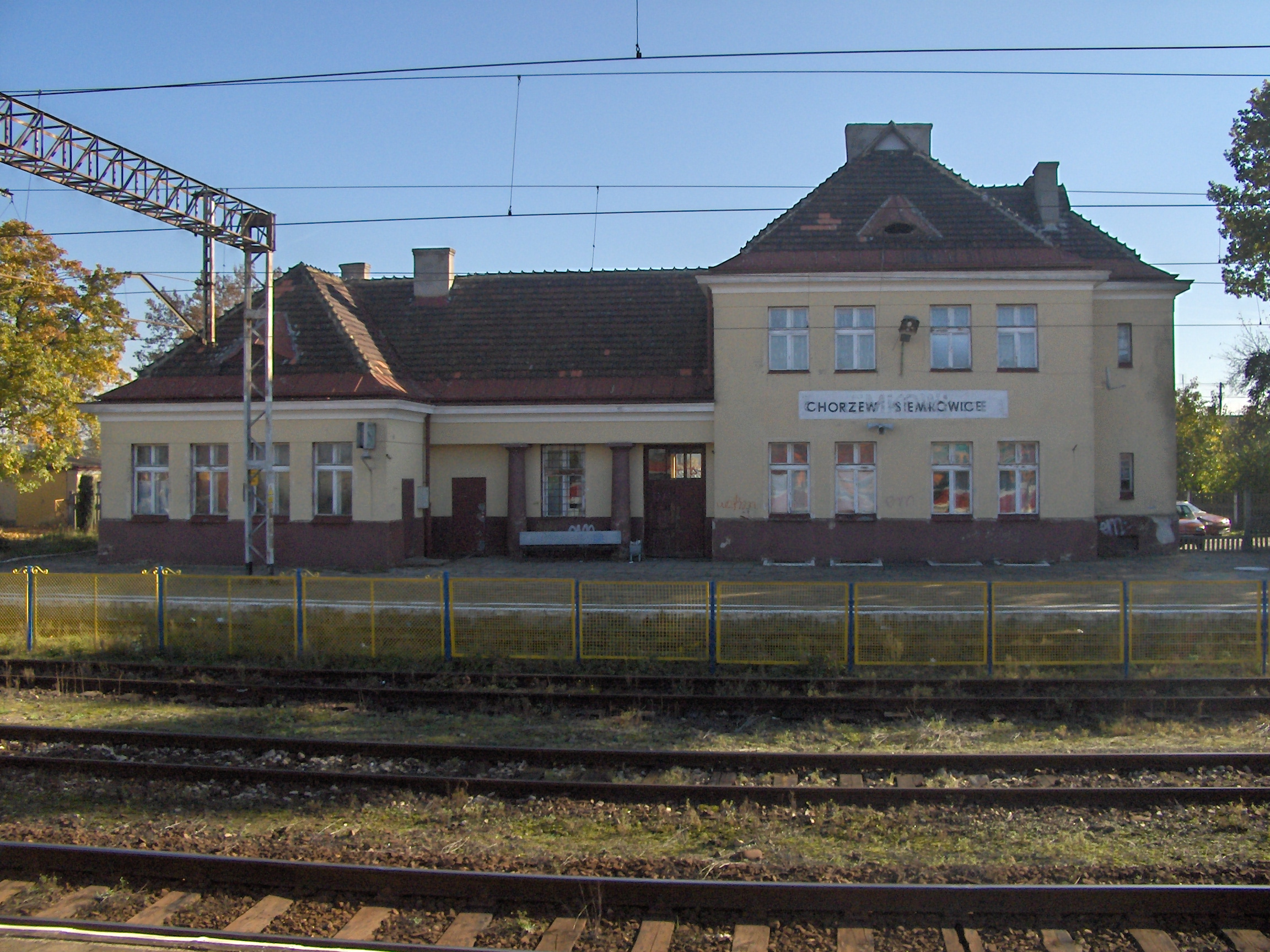 Chorzew Siemkowice. Budynek dworca (2007).